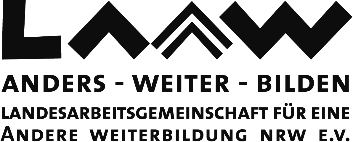 Logo of the asociation